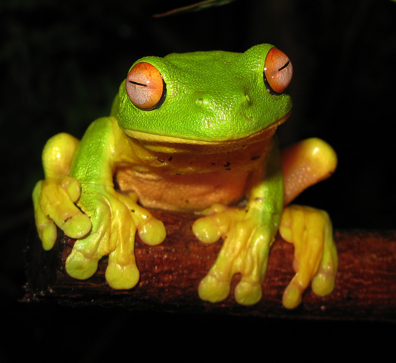 The Red-eyed Tree Frog (Litoria chloris) found in eastern Australia.